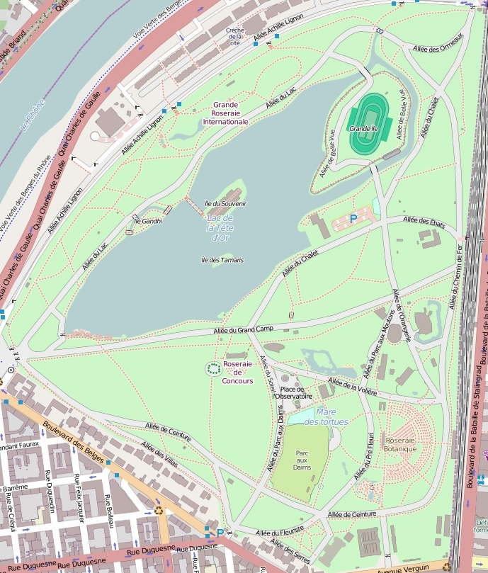 Geolocalisation: top: 45.7848 bottom: 45.7725 left: 4.8441 right: 4.8595